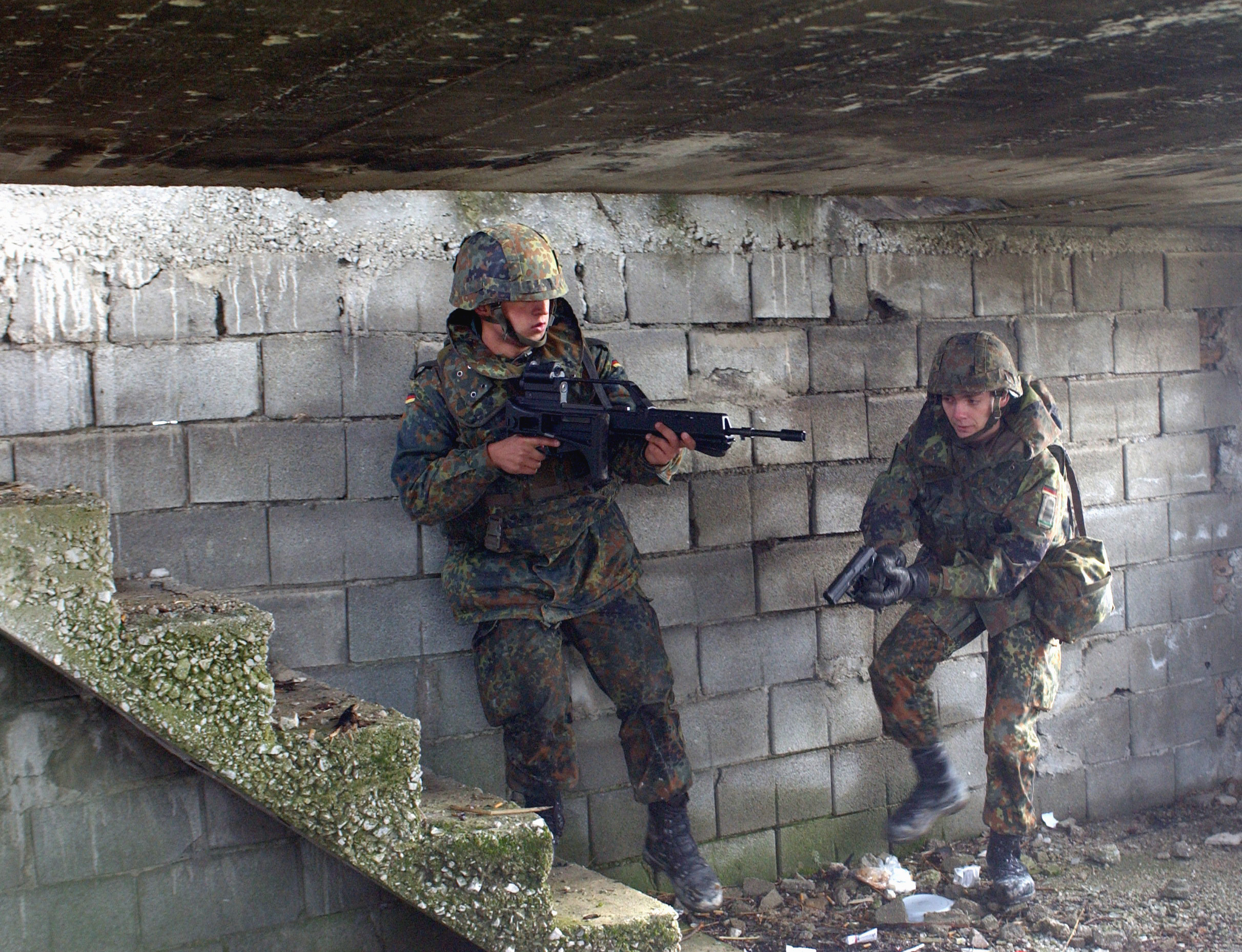 During exercise Joint Resolve 26, in Bosnia and Herzegovina (BiH), Specialists Alexander Penneckendorf, right and a team member from the German Battle Group's 2nd Reinforced Infantry Company, armed with a Heckler and Koch automatic assault rifle and HK-P8 hand gun, seek French soldiers playing the role of paramilitary extremists, near a paramilitary training camp in the town of Pazaric.